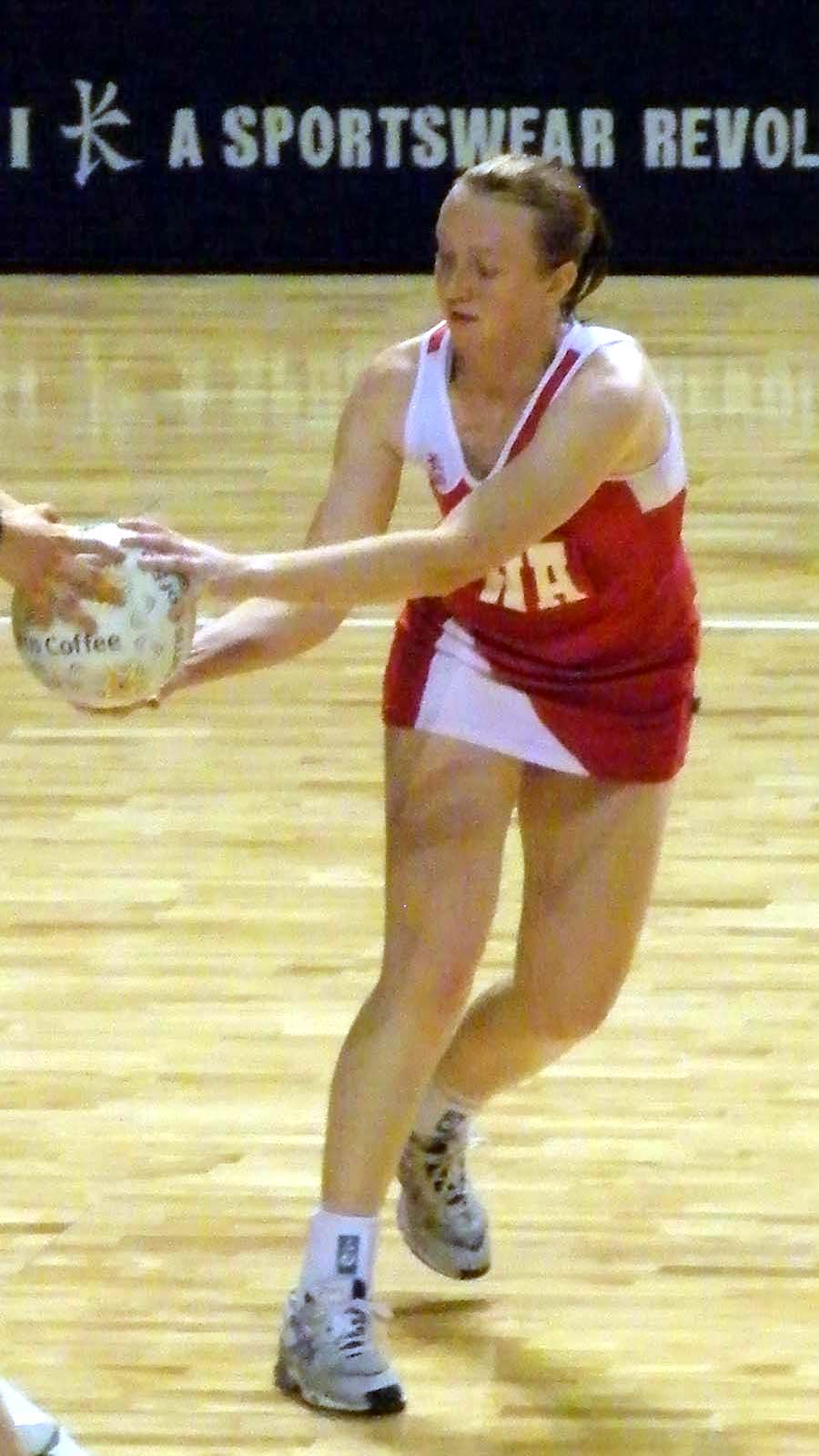 Crop of Karen Atkinson from Australia v England - Netball Test - Adelaide, October 2008. Levels adjusted.